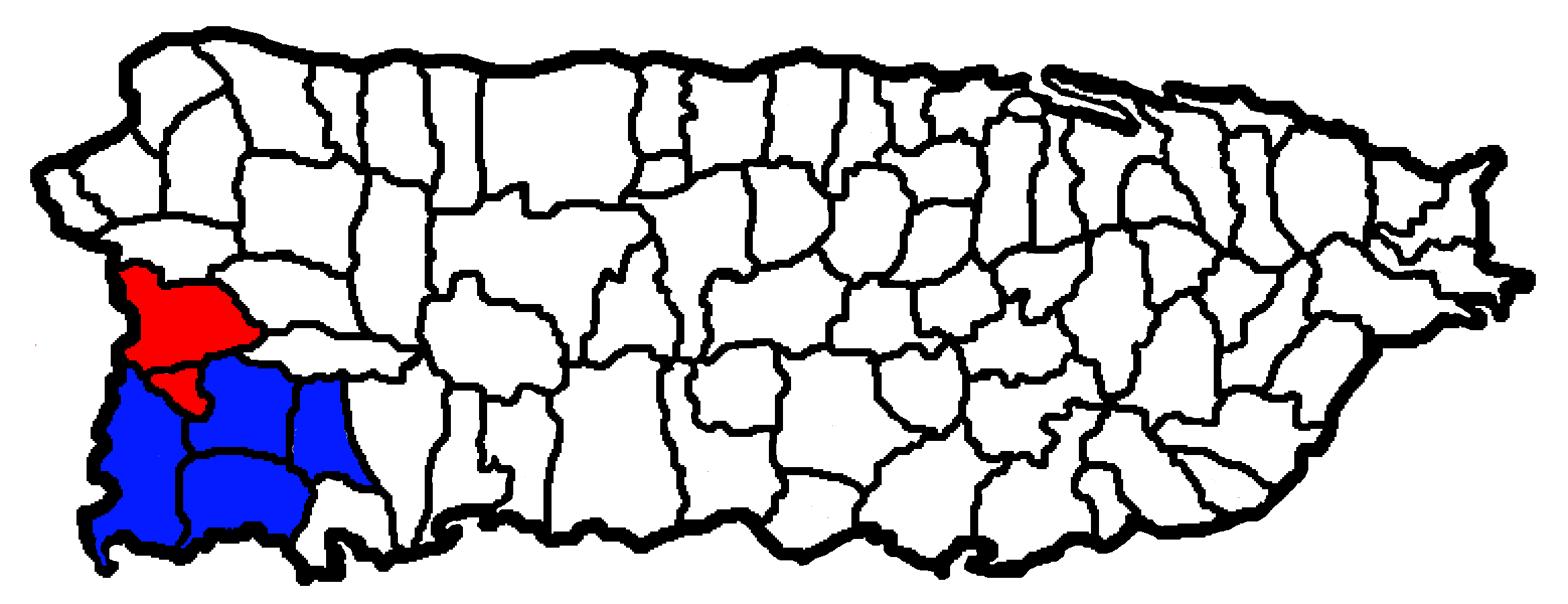 Components of the Mayagüez–San Germán–Cabo Rojo Combined Statistical Area. Mayagüez Metropolitan Statistical Area San Germán-Cabo Rojo Metropolitan Statistical Area Created with the GIMP. Adapted from Image:Map_of_the_78_municipalities_of_Puerto_Rico.png by Alessandro Cai (OliverZena).